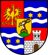 Official coat of arms of the Varaždin county in Croatia, made from gif version at by Željko Heimer